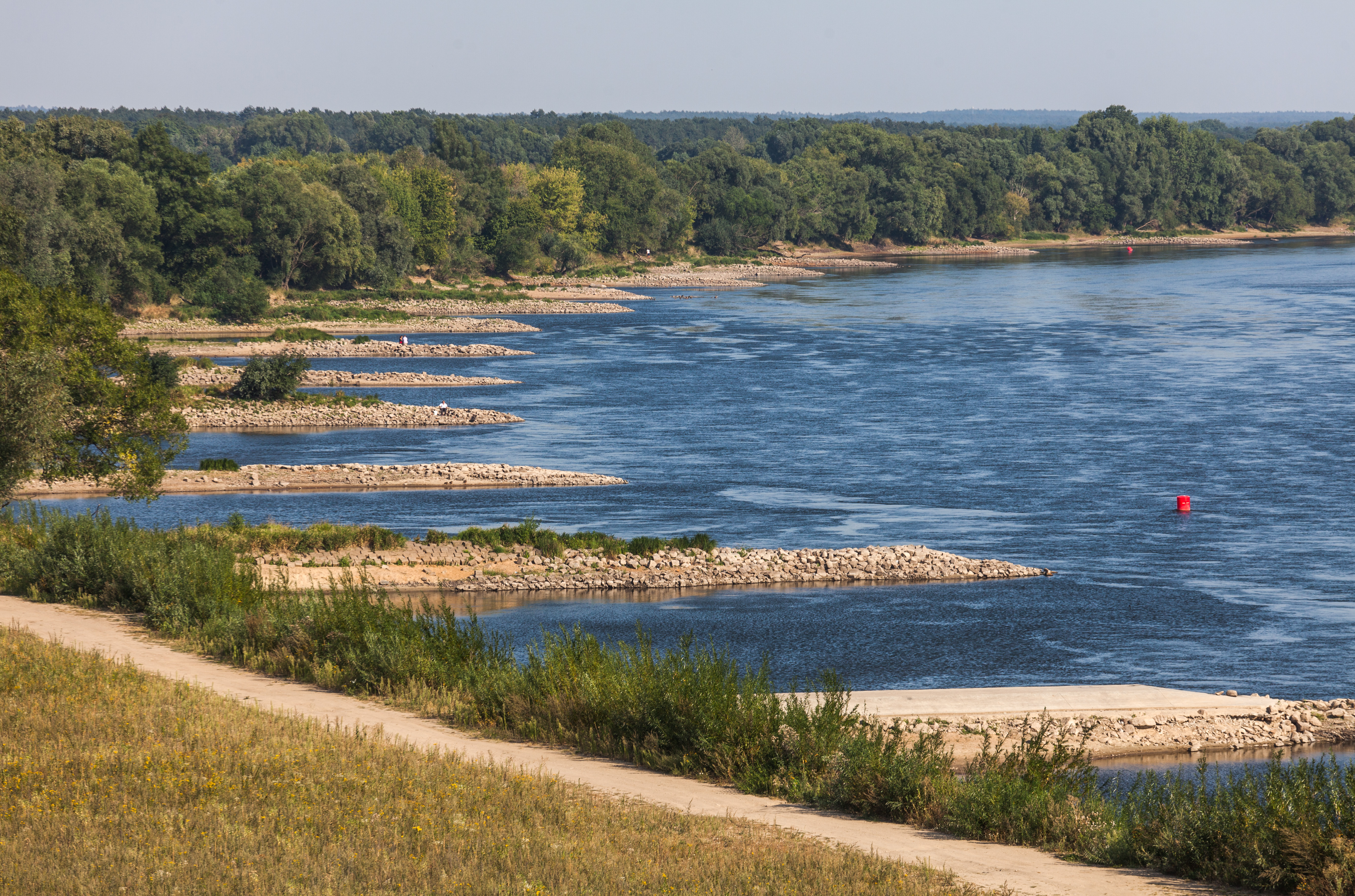 Low water on Vistula in Toruń in August 2015